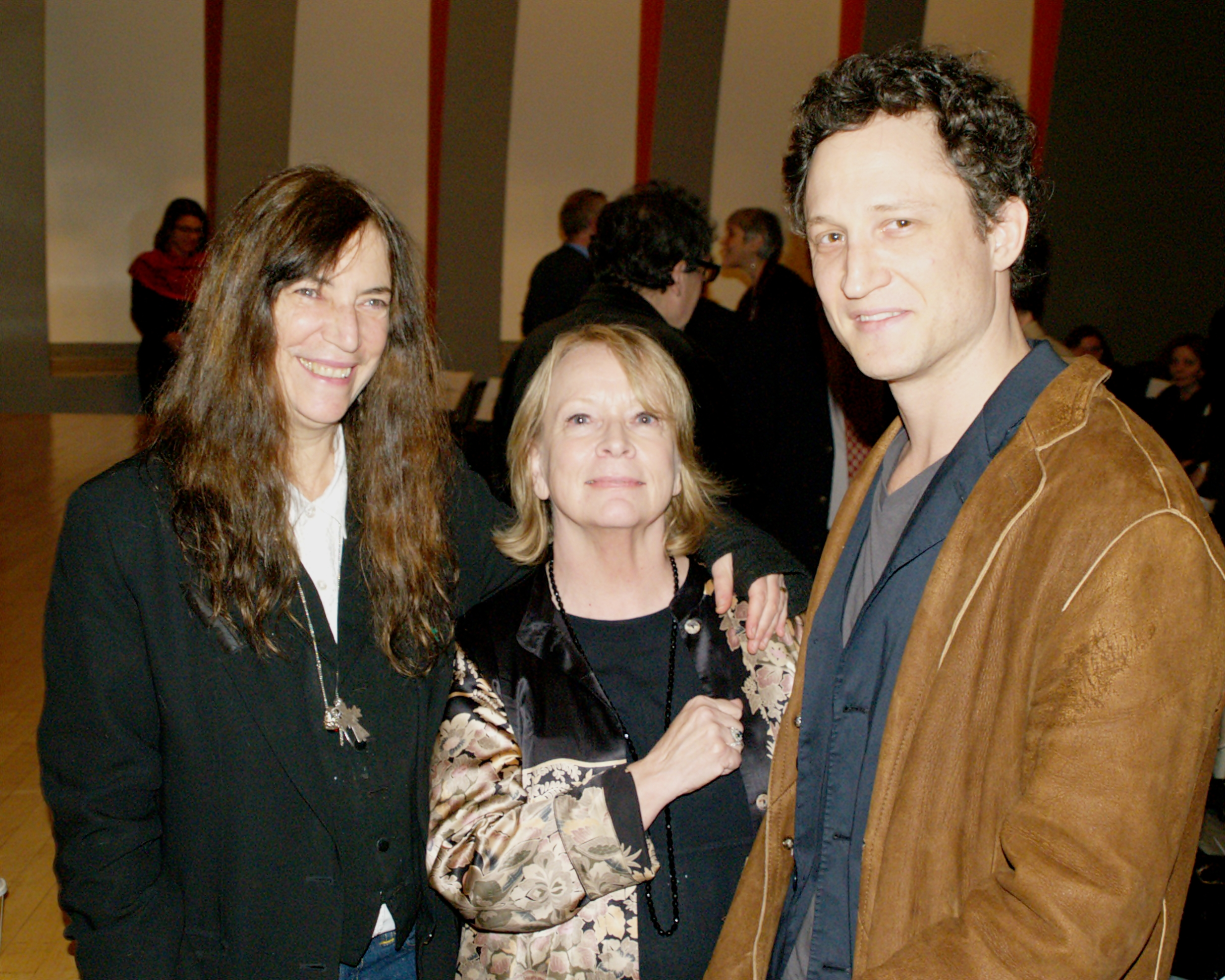 Patti Smith, NBCC president Jane Ciabatarri and board member John Reed at the 2010 National Book Critics Circle awards.